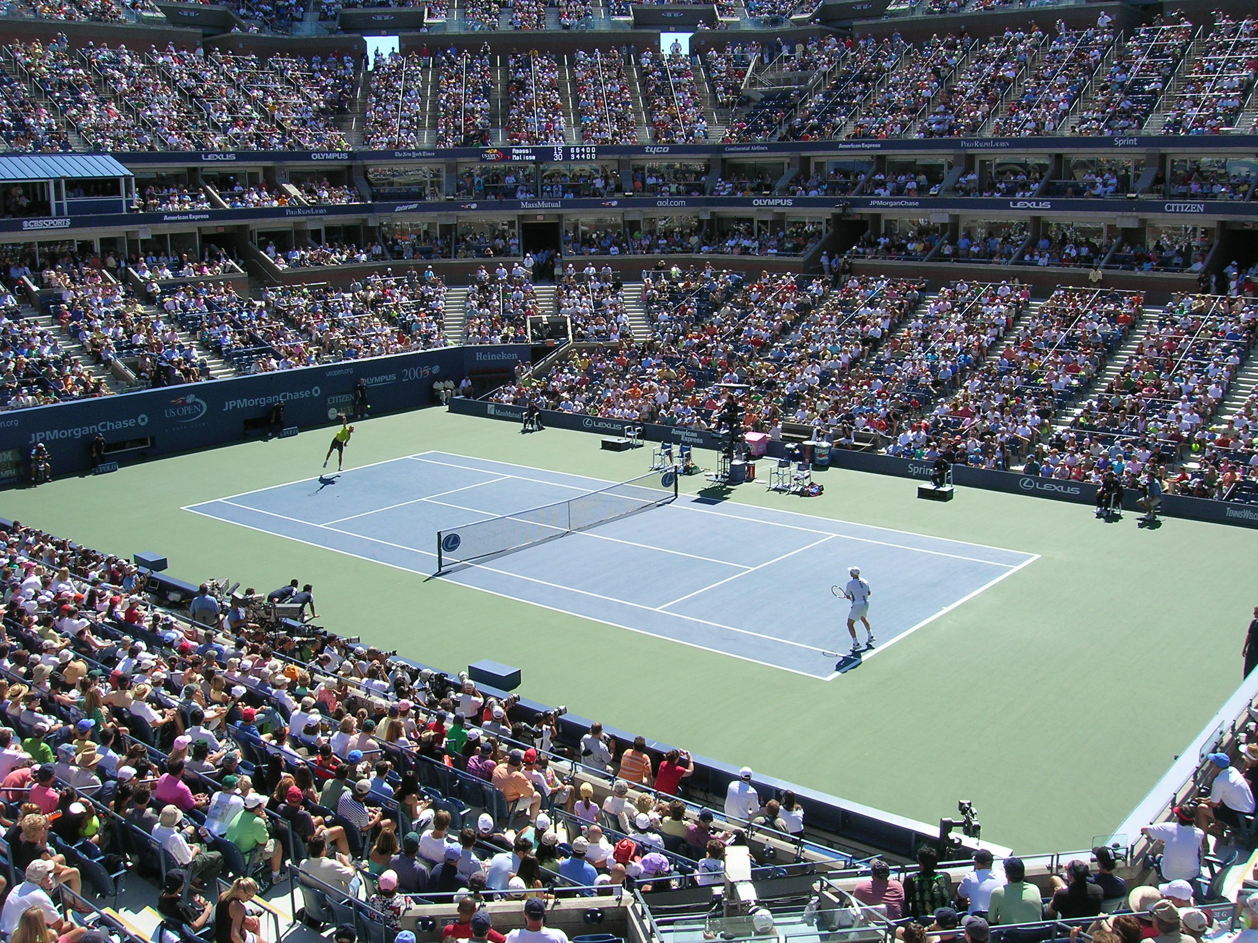 Arthur Ashe Stadium during the 2005 U.S. Open.